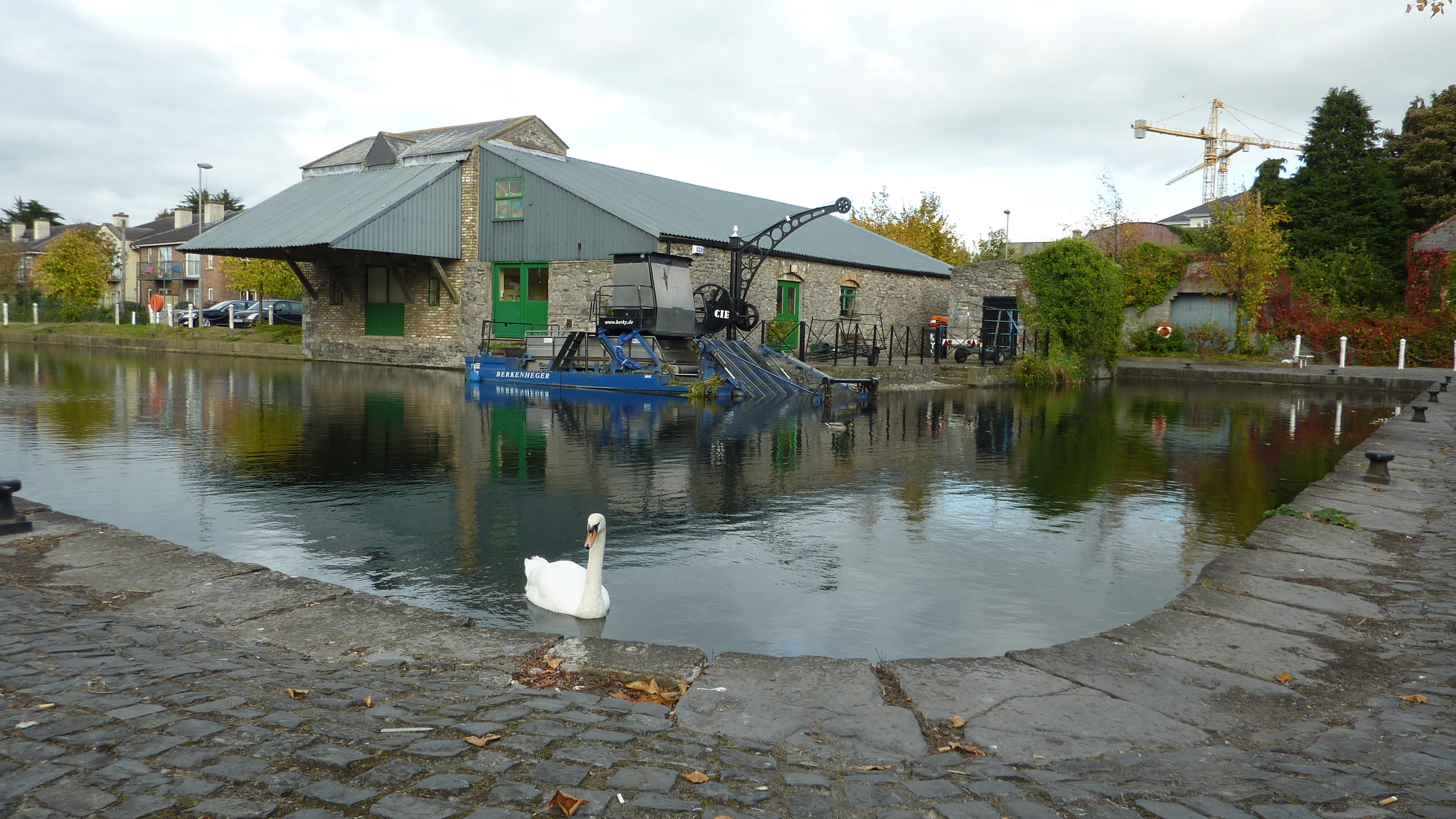 Canal Harbour, Basin Street, Naas, County Kildare, Ireland